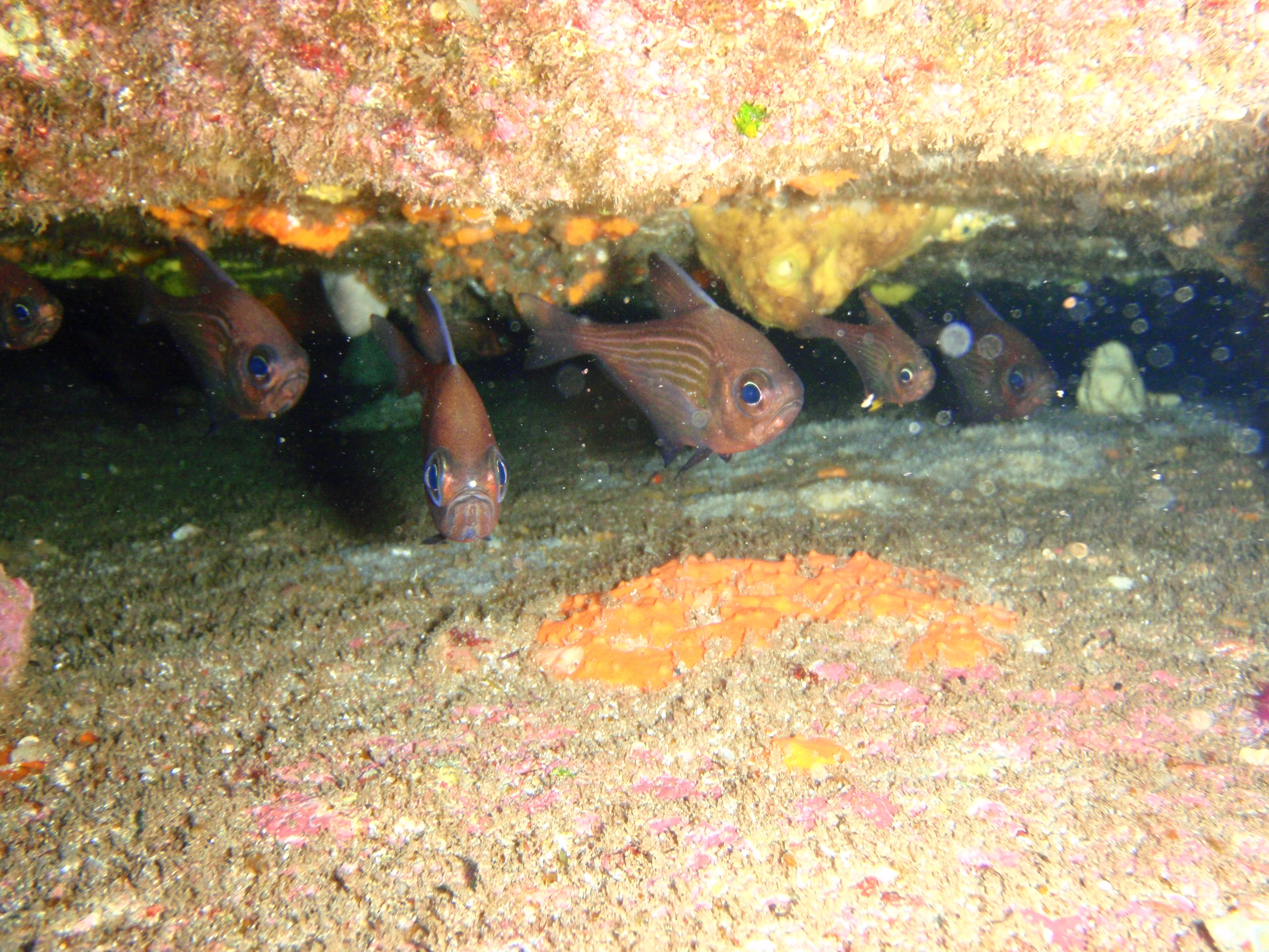 Orange striped bullseye Pempheris ornata at the north of Pearson Island, South Australia.